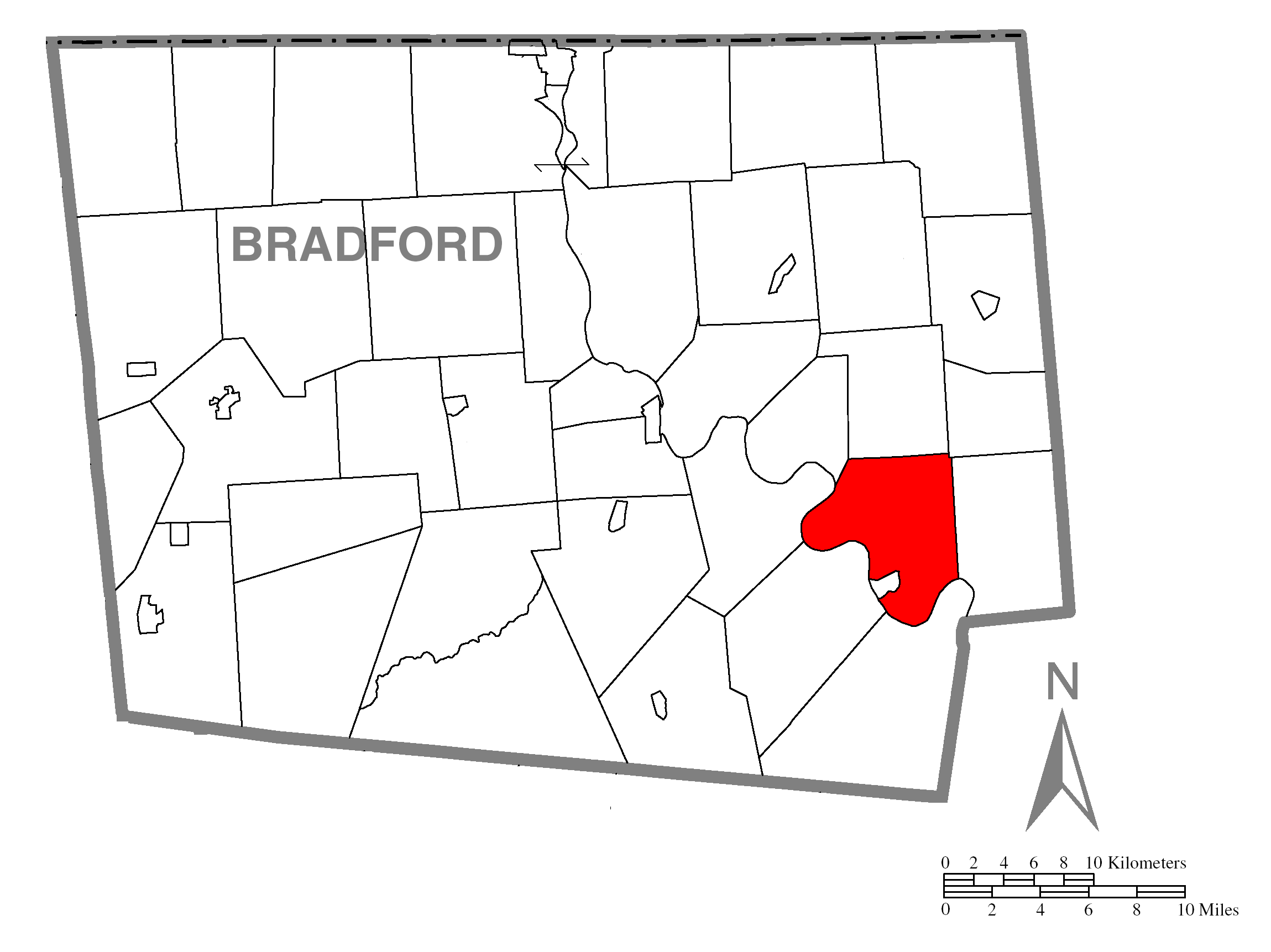 A map of Bradford County showing Wyalusing Township, Pennsylvania (alternate) highlighted on the map.